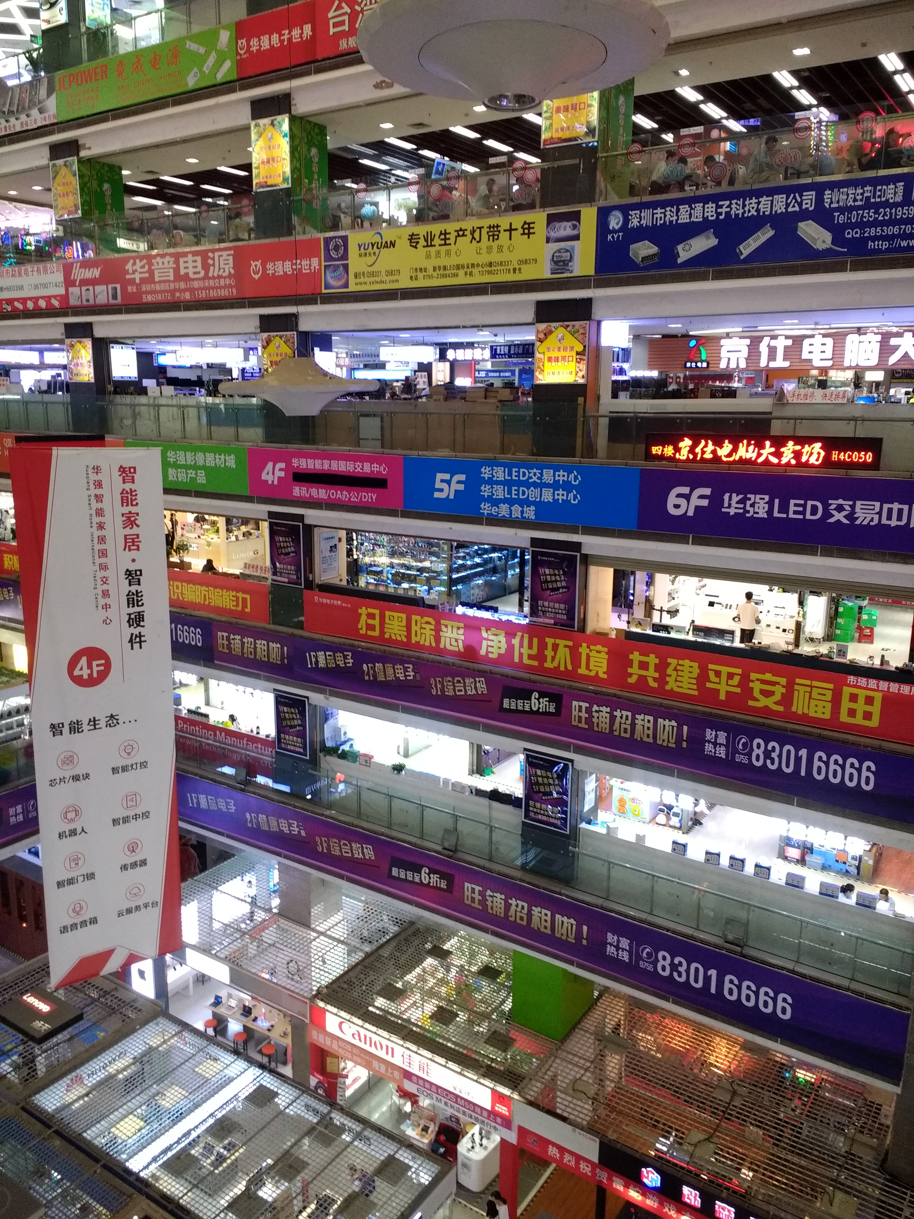 Huaqiang Electronics World in Huaqiangbei, Shenzhen, China.